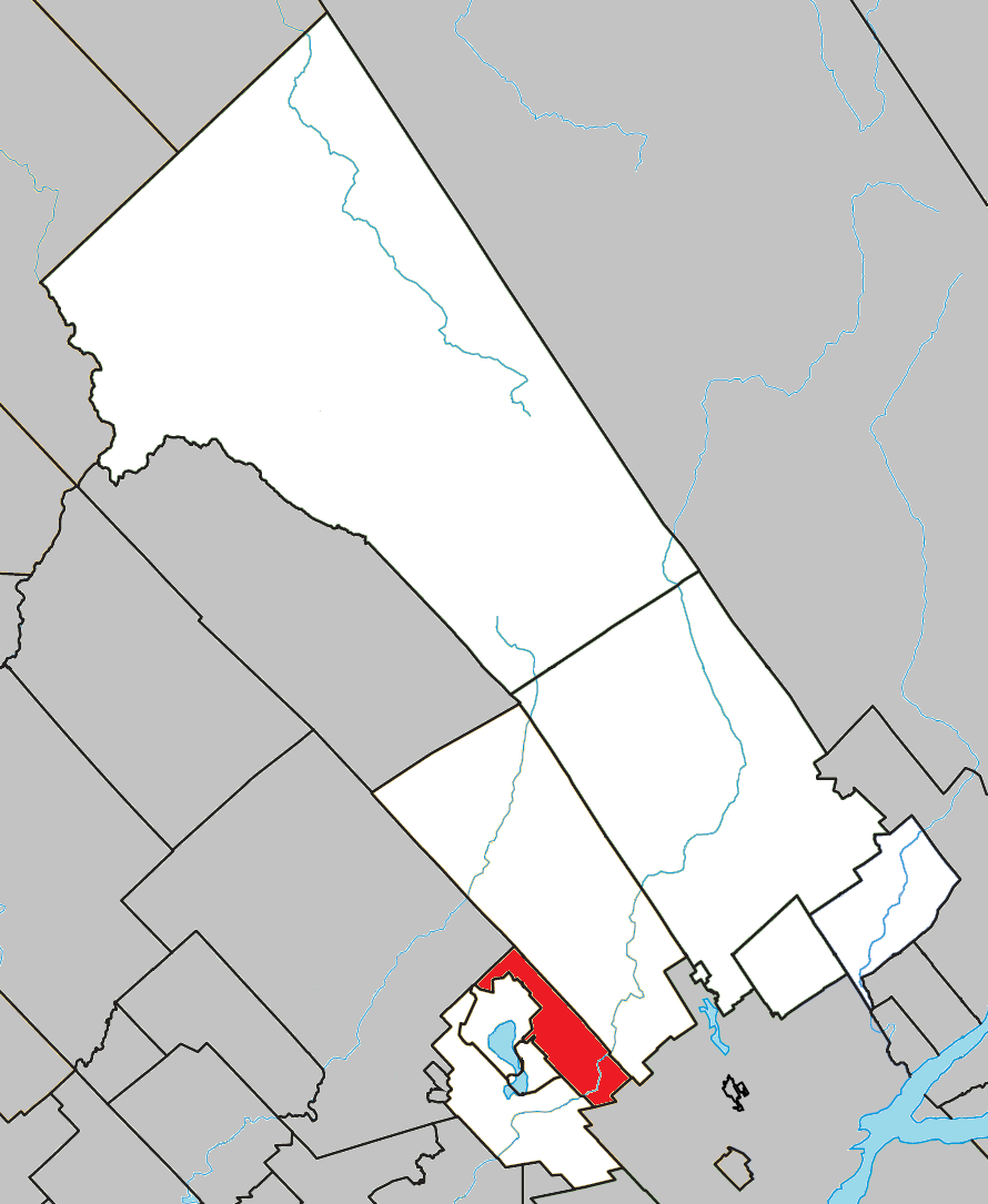 Location of Shannon, Quebec within La Jacques-Cartier Regional County Municipality.